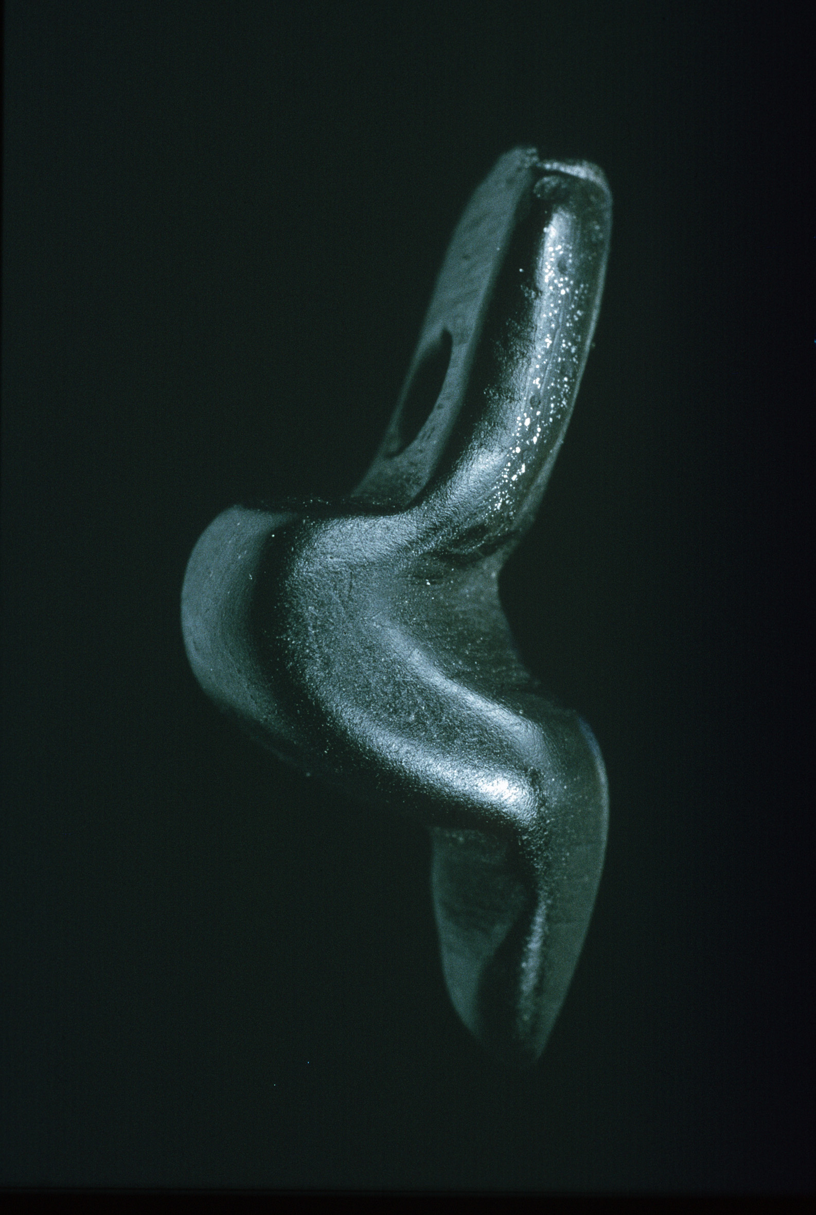 Venus of Monruz. Jet pendant representing a feminine figure, Monruz (Canton of Neuchâtel). Magdalenian, ca. 13000 B.C. N° inv. NE-MZ 900004.